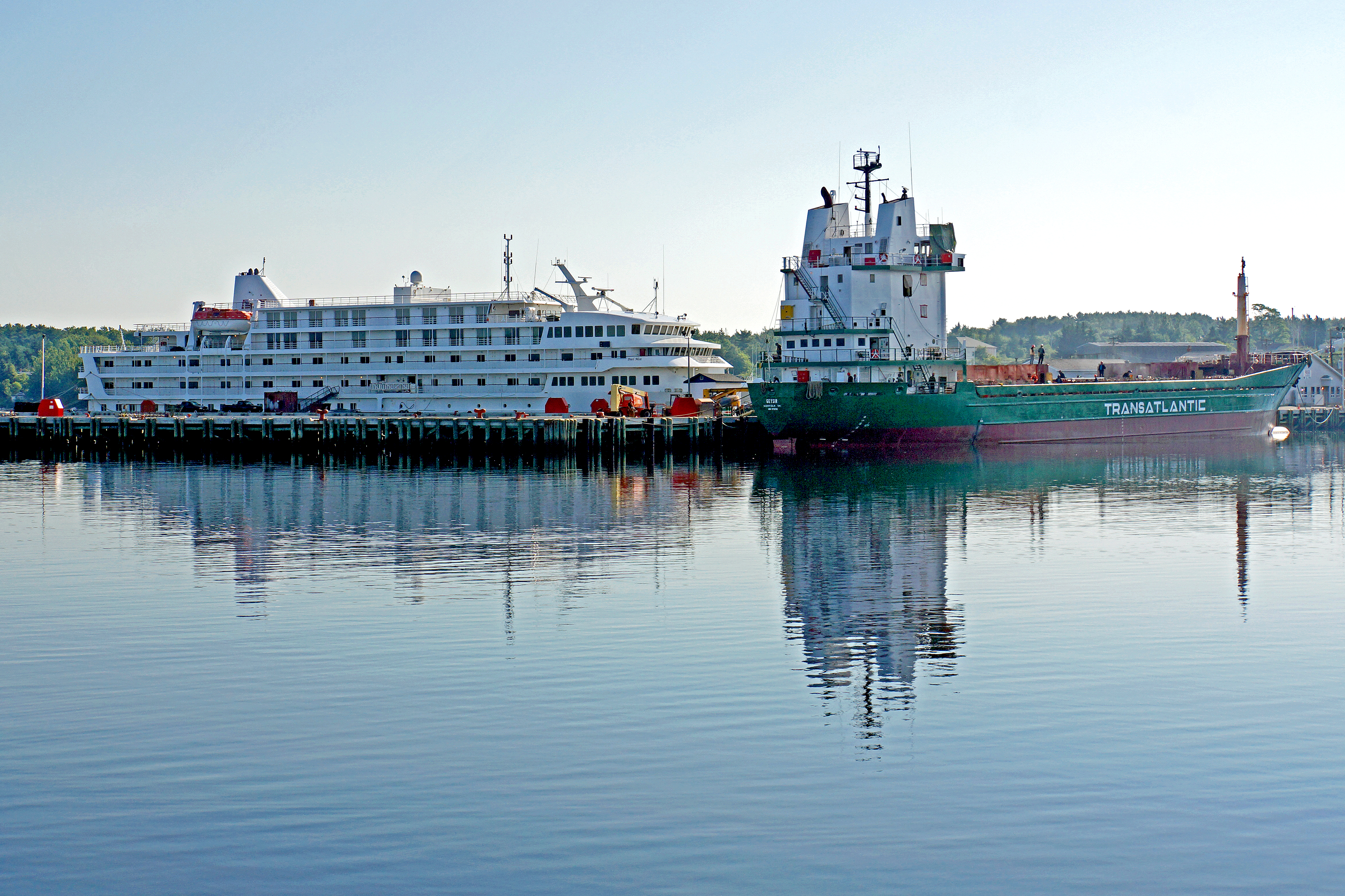 Shelburne NS Shipyard The white ship is "Pearl Mist". In January 2008, the folks behind small-ship line American Cruise Lines announced the formation of a new cruise venture called Pearl Seas Cruises, which was to begin worldwide service in 2009 with a brand-new, all-suite ship called Pearl Mist. Then problems began to surface. In May 2009, the ship's sea trials ended with the line claiming that deficiencies had been uncovered that required the cancellation of its planned inaugural season. The rest of 2009 came and went, ditto for 2010, 2011 and 2012. Pearl Seas is suing Irving for some $60 million. The ship on the right is "MV Geysir". It is a U.S.-flagged general cargo/container ship owned by TransAtlantic Lines LLC. Originally named Amazonia, the 90-meter ship was built by American Atlantic Shipping in 1980 to serve a route from the United States to Brazil. The ship is now used to carry cargo to U.S. activities in the Azores.